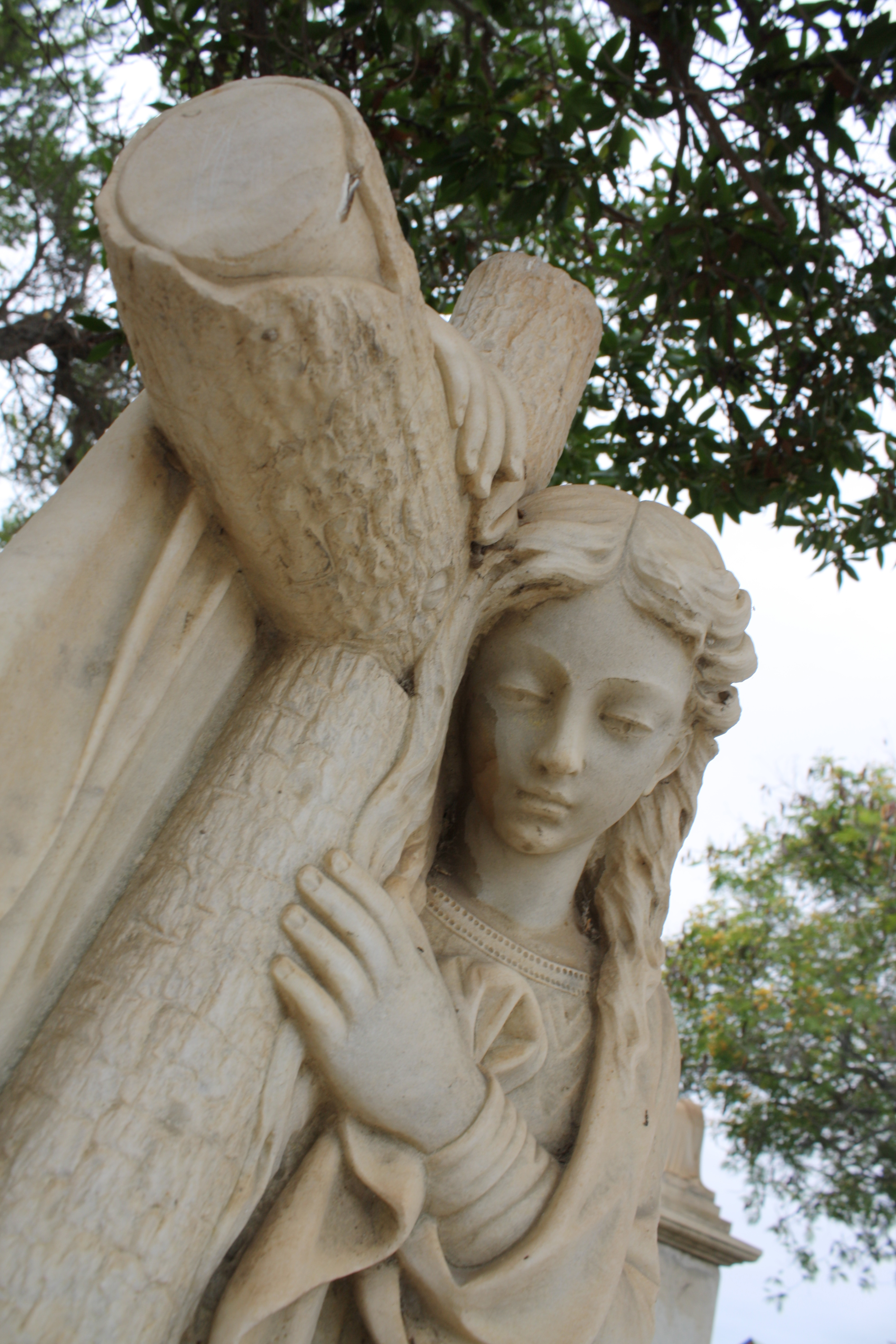 This is a photo of a national monument in Chile: 70°48′50″O 27°4′2″S 70°48′50″O